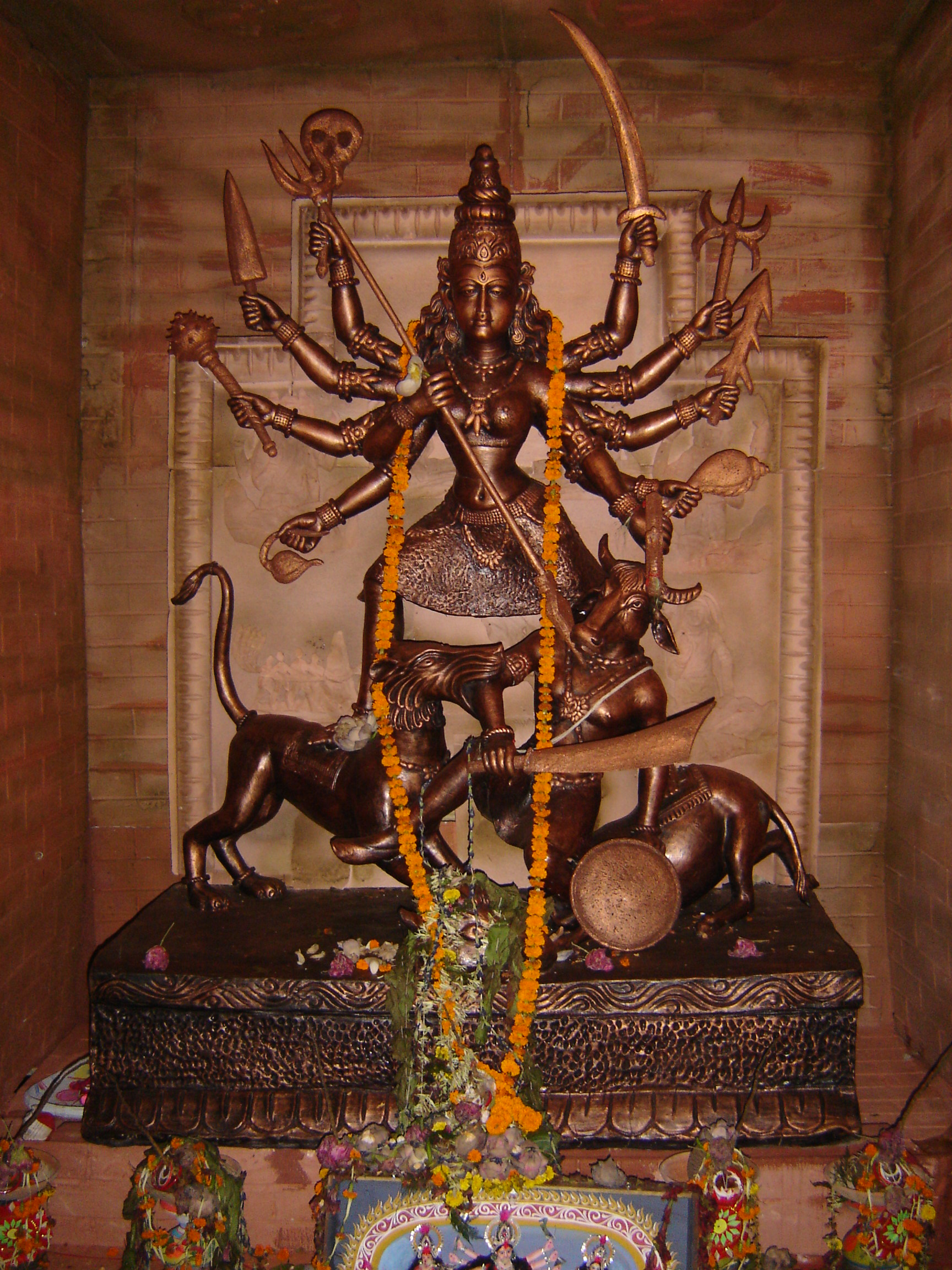 Durga Puja is one of the largest celebrated festivals in the whole world. These photographs have taken at Biswamilani club at Howrah.